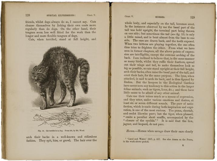 The illustration of feline behaviour is from Charles Darwin's book on "The expression of the emotions in man and animals," published in 1872, to exemplify the physical attributes a cat expresses while feeling terror. Darwin's book on emotions is his third major work on the Theory of Evolution and uses methodology of anecdotal cognitivism and anthropomorphism to explain human and animal behaviour. The theories of evolution and Darwin's works are the foundation for many scientific disciplines and understanding of biology and animal cognition.